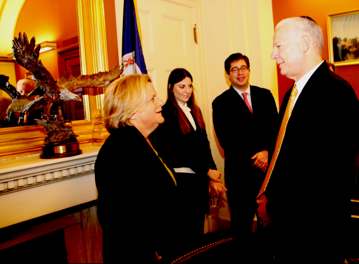 U.S. Representative Ileana Ros-Lehtinen and Yekutiel Wultz meet in Office of House Majority Leader Eric Cantor on May 1, 2014, Washington, D.C.